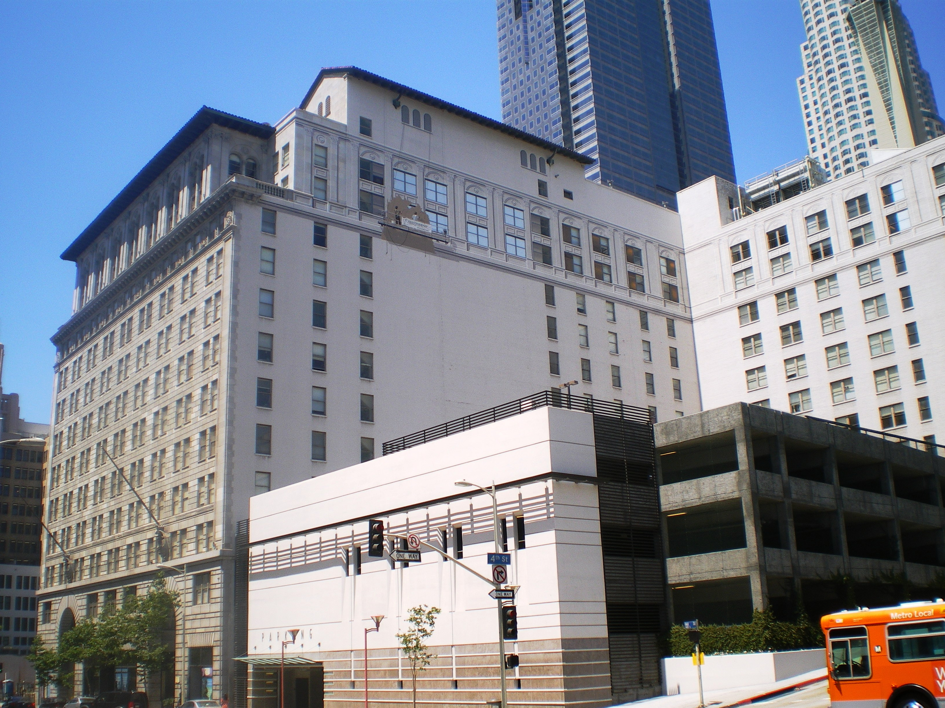 Subway Terminal Building, 417, 415, 425 S. Hill St., 416, 420 424 S. Olive St., Los Angeles, Californa